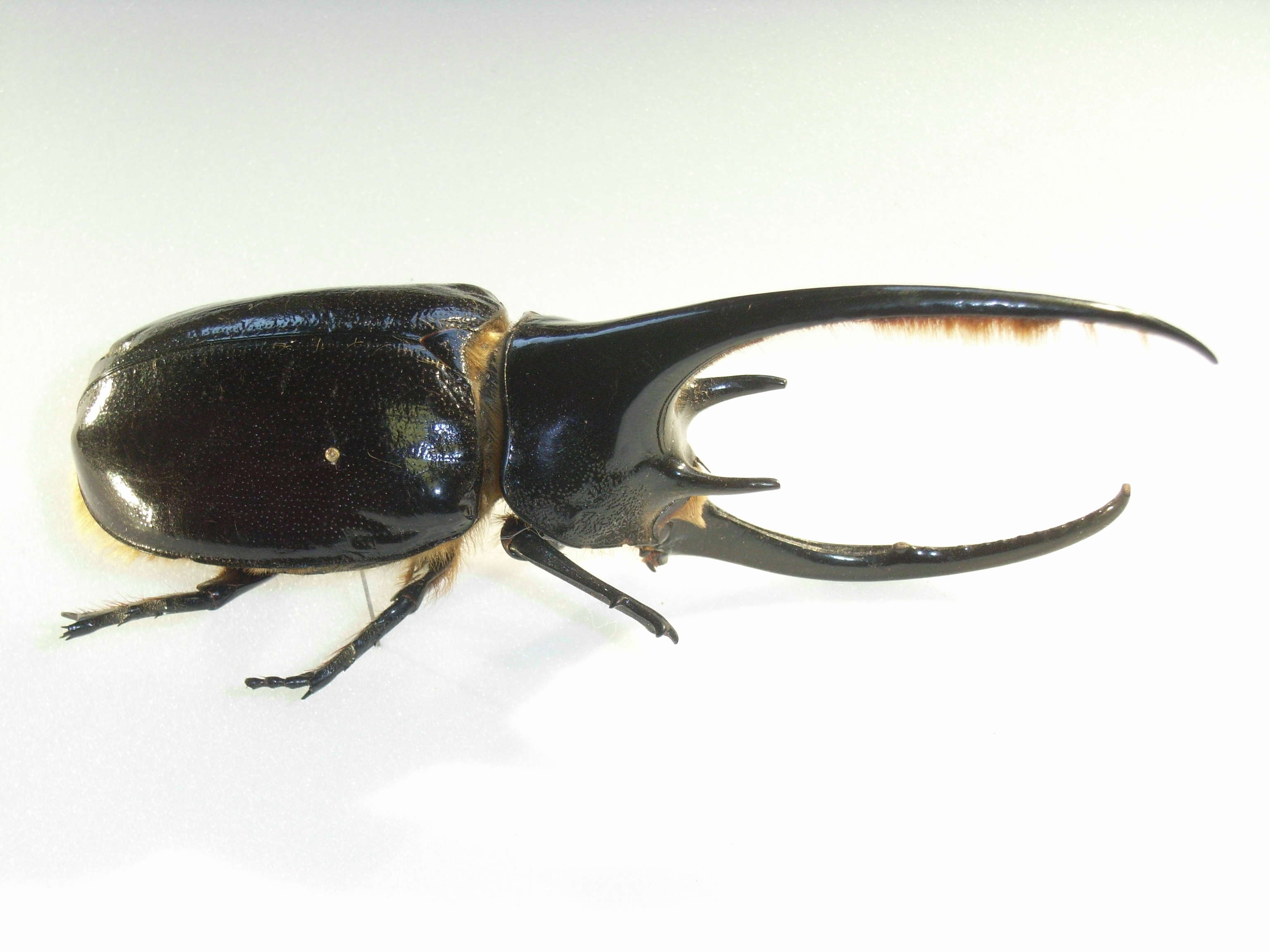 Dynastes neptunus Ex coll. Felix Stumpe